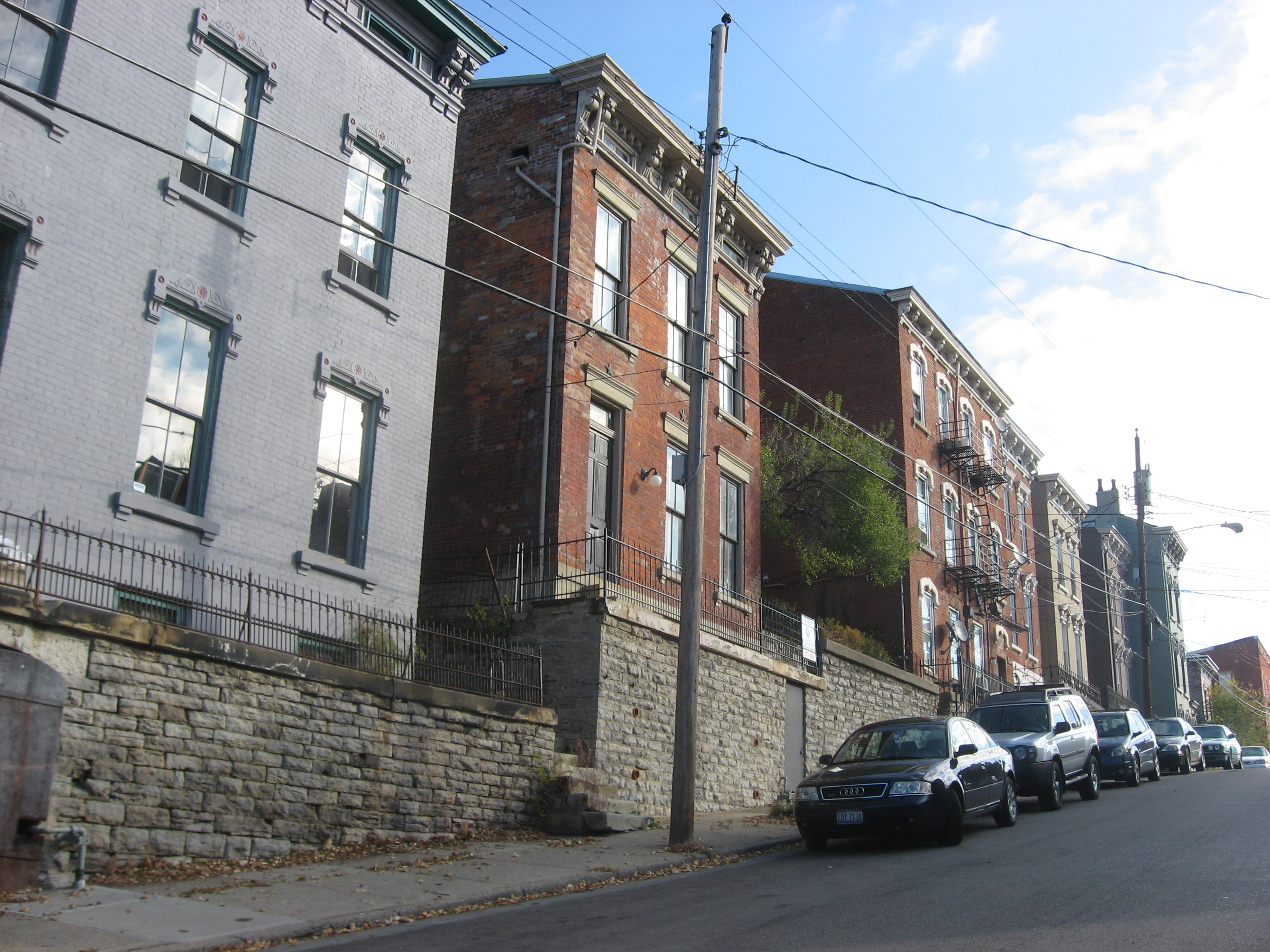 Houses on the northern side of the 500 block of E. Milton Street in Cincinnati, Ohio, United States. These houses are part of the Prospect Hill Historic District District, a historic district that is listed on the National Register of Historic Places.